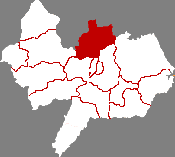 Location of Qing county in Cangzhou City, China